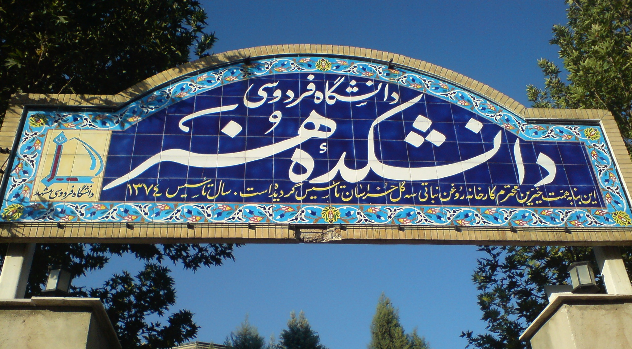 Nishapur Art Collage's Door